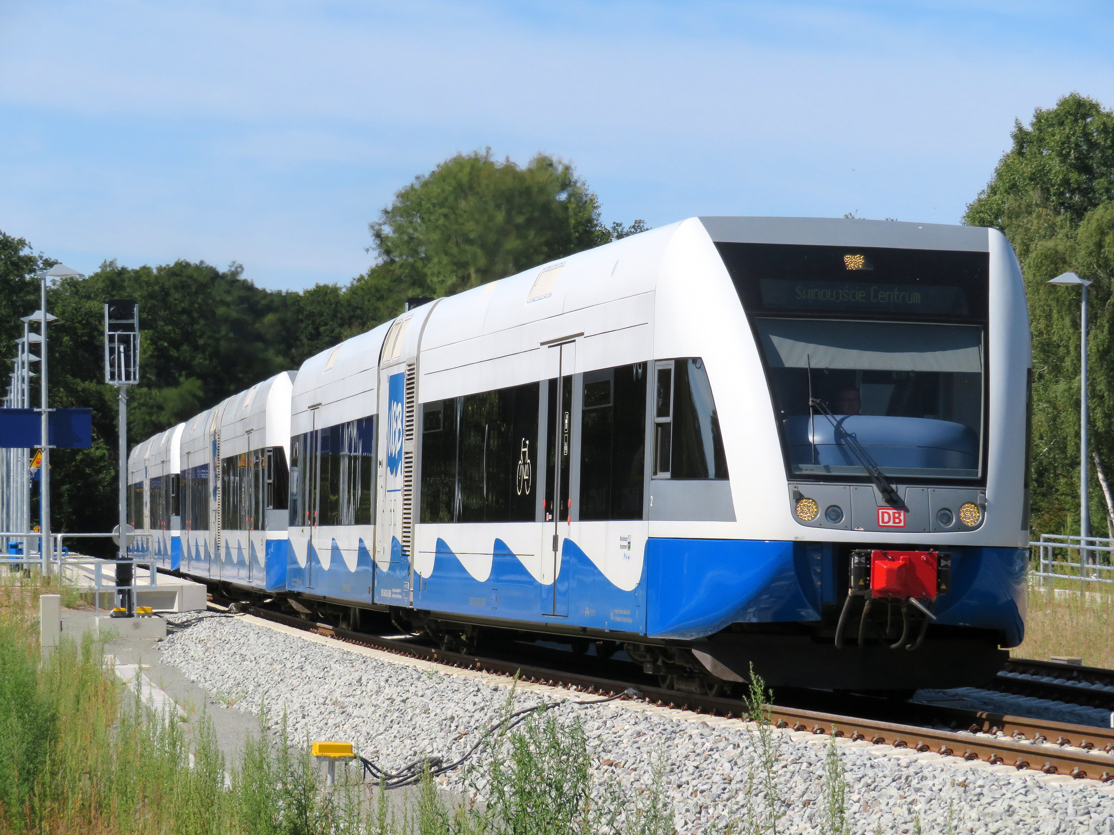 Triple unit of the 646 series (Stadler GTW) of the Usedomer Bäderbahn leaves the 2018 newly built junction Schmollensee eastwards.